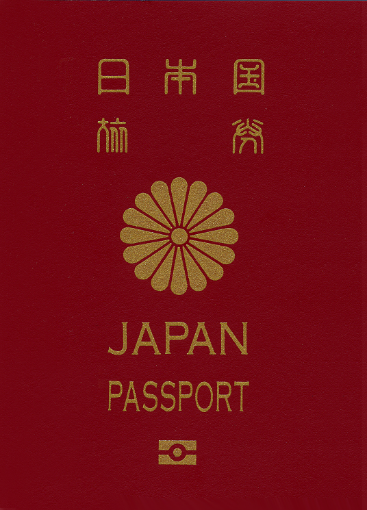 Japanese Passport New 10 years type (An issuance start on March 20, 2006).